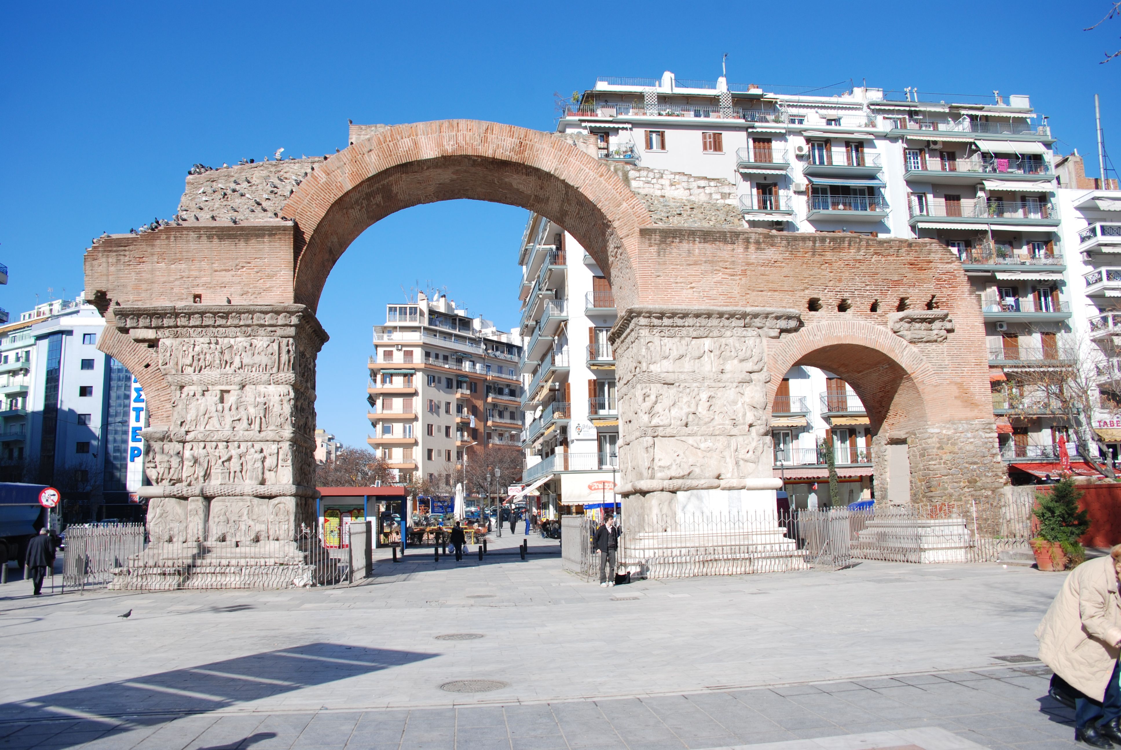 The Arch of Galerius, stands on what is now Dimitrios Gounari Street. The arch was built in 298 to 299 CE and dedicated in 303 CE to celebrate the victory of the tetrarch Galerius over the Sassanid Persians and capture of their capital Ctesiphon in 298. From Wikipedia more here